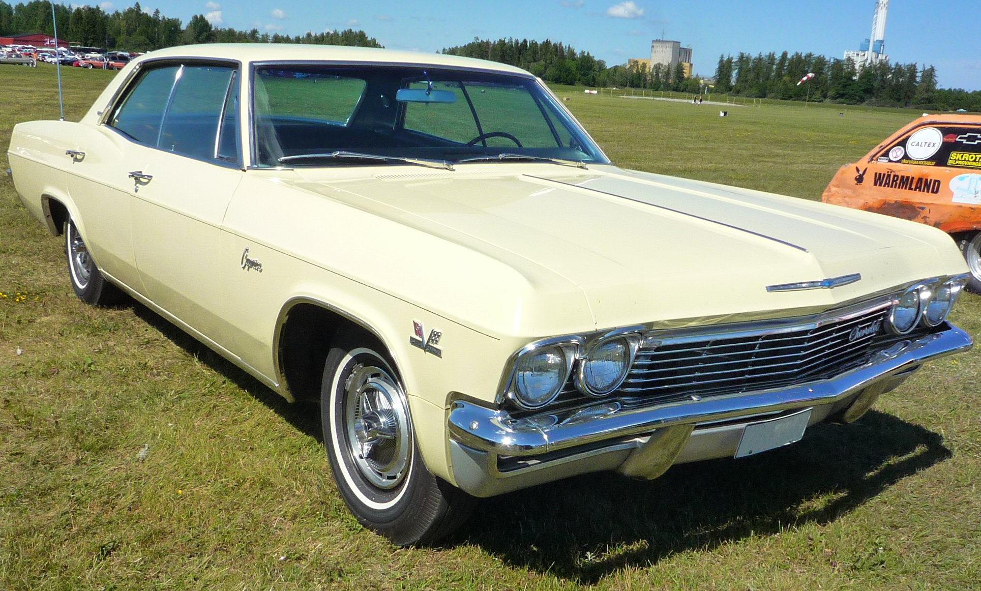 1965 Chevrolet Impala Caprice - in 1965, the "Caprice" package was made available as a $200 option on the Impala. It was successful enough to soon become a model in its own right.